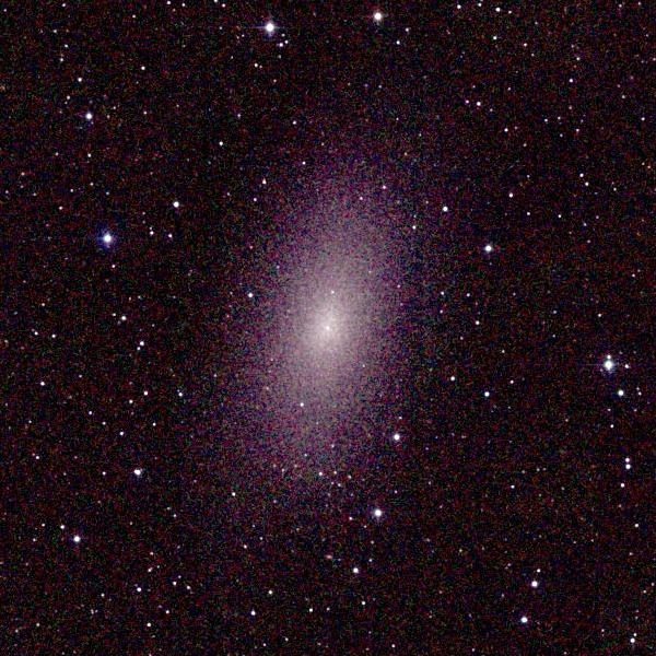 Galaxy M 110